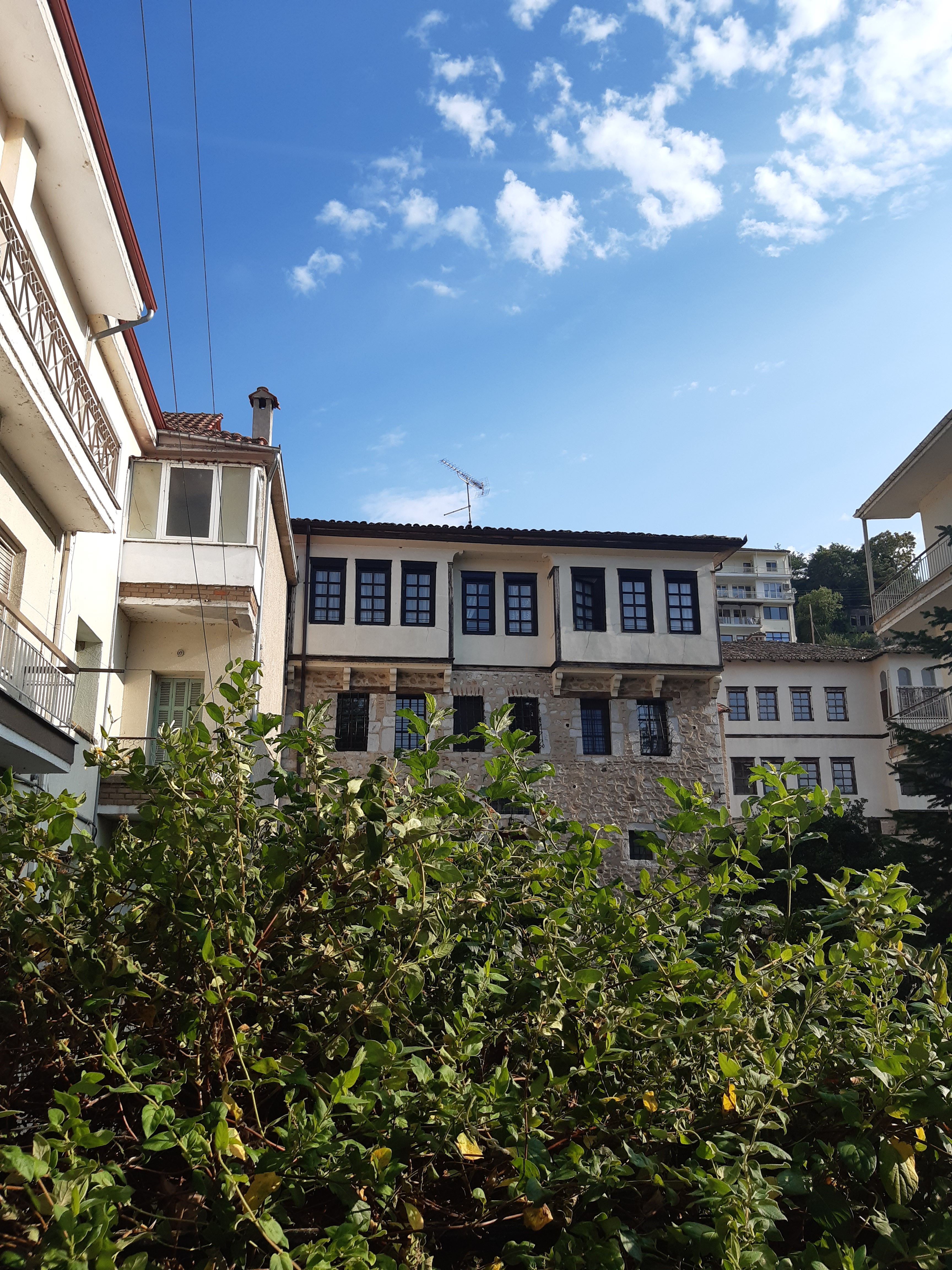 Mavrovitos Mansion